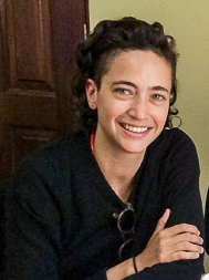 USAID researchers Paola Ramos (left) and Aden Tedla (right) meet with Gabriela Tuch (center), the head of the Human Rights Ombudsman: Sexual Diversity Office in Guatemala. Created in 2014, the office promotes LGBT rights and works to end discrimination based on sexual orientation and gender identity. / Paola Ramos